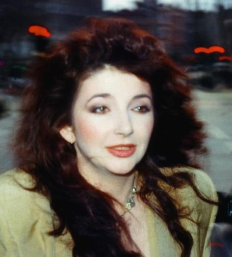 Kate Bush about to perform at Comic Relief 1986